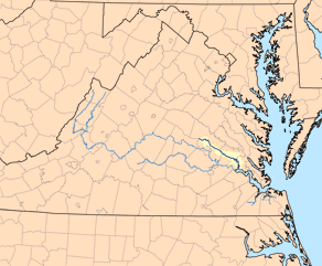 This is a map of the Chickahominy River watershed. I, Karl Musser, created it based on USGS data.